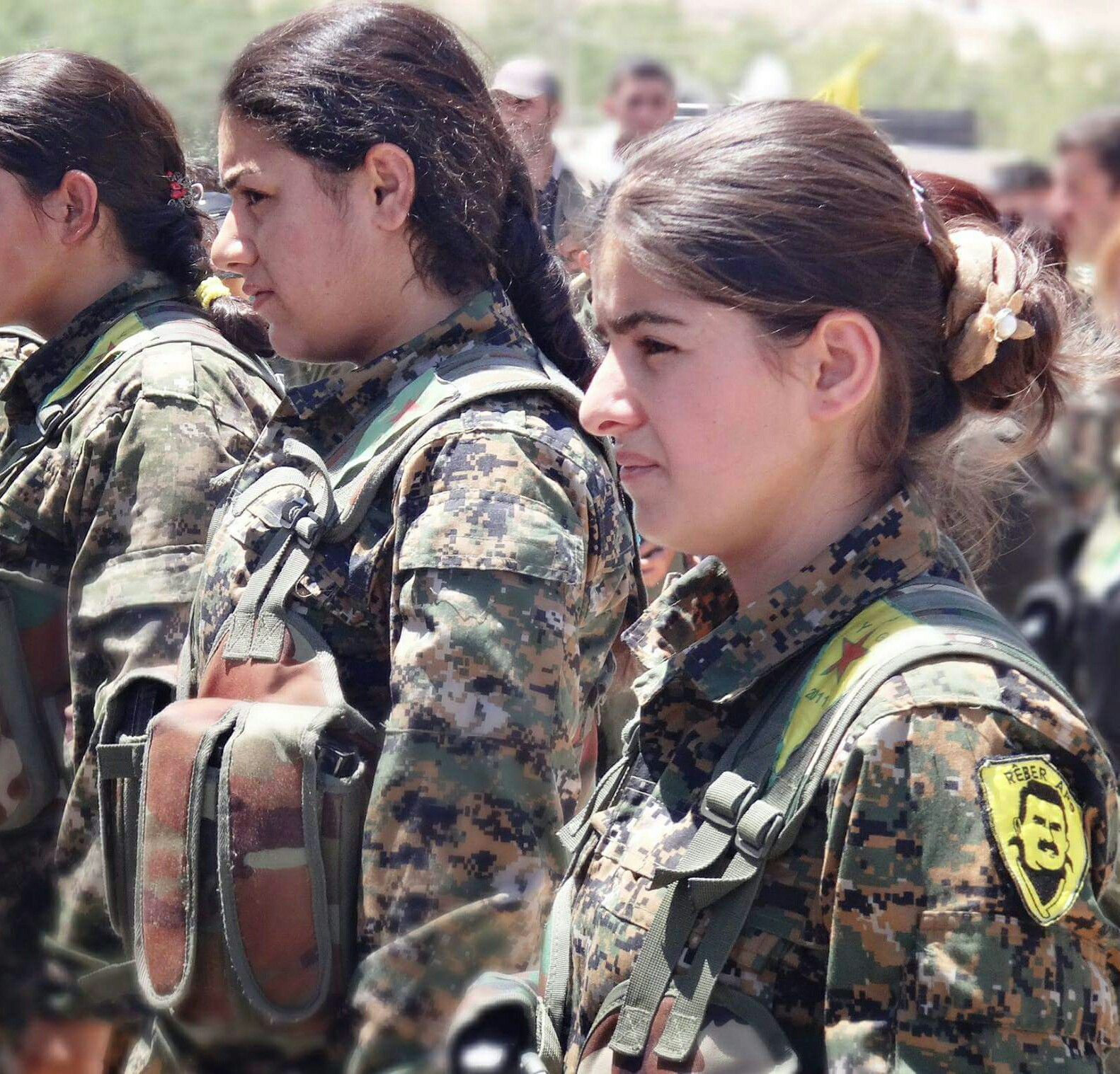 YPJ fighters stand in formation